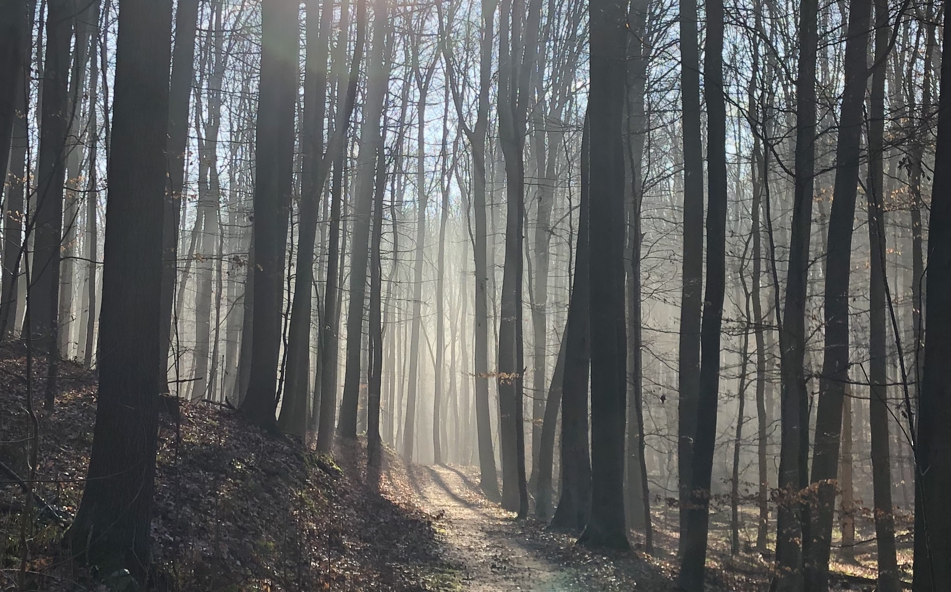 Botermans path